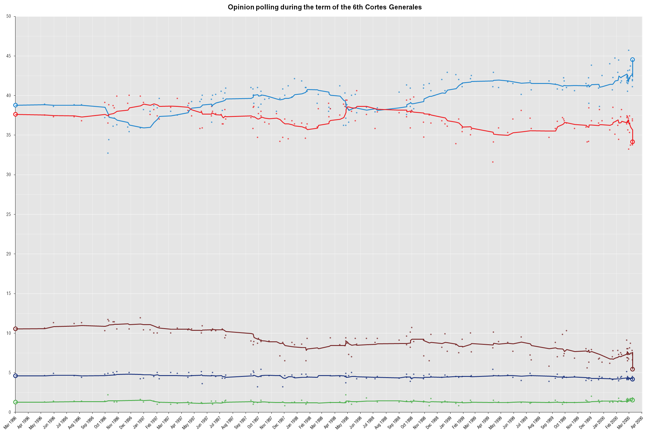 10-point average trend line of poll results from 3 March 1996 to 12 March 2000, with each line corresponding to a political party. PP PSOE IU CiU PNV